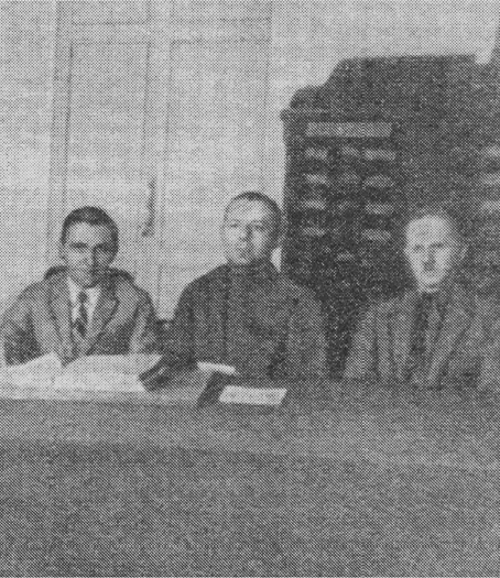 Presidium of the Central Institute of Labour